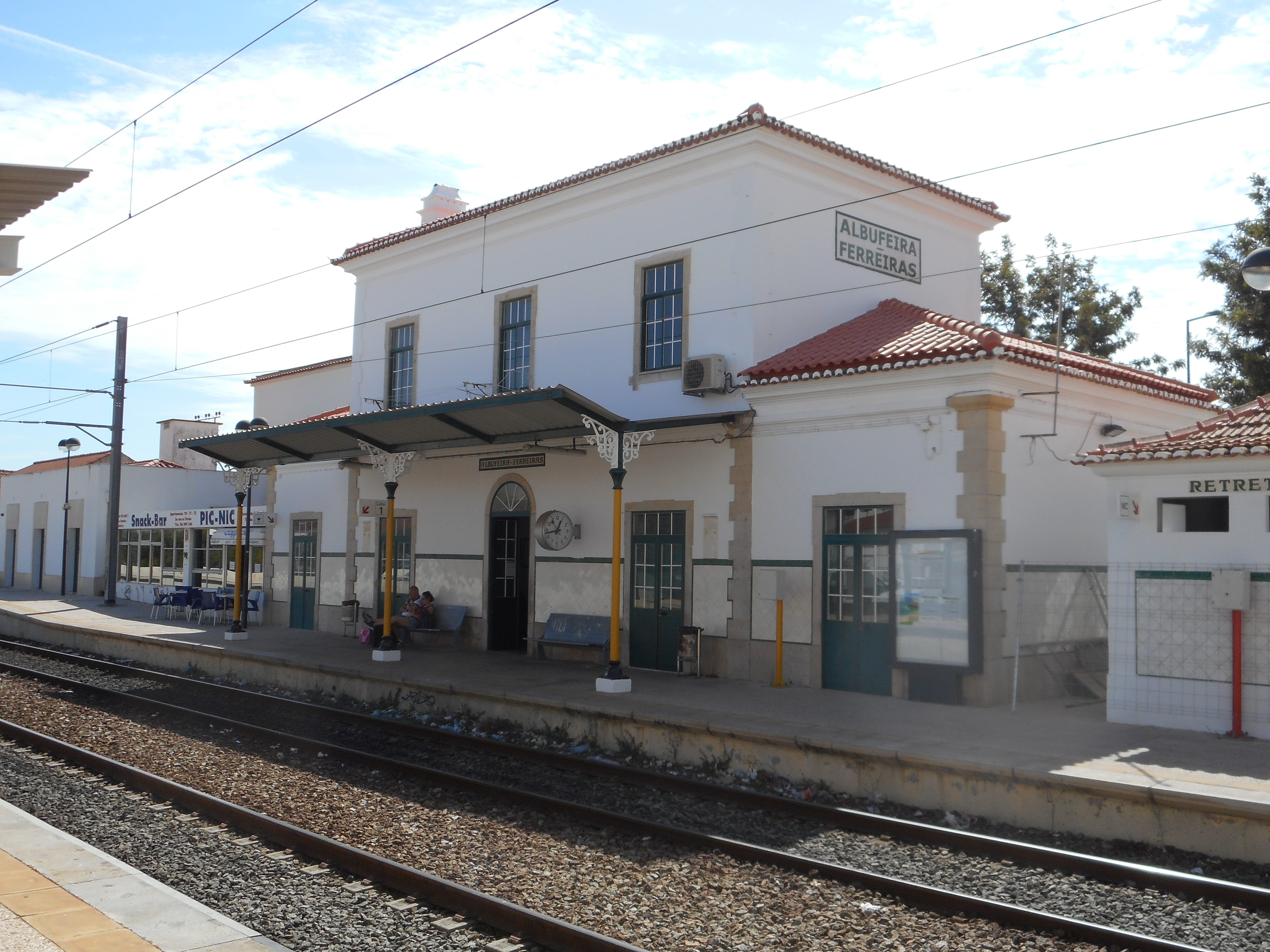 The Albufeira/Ferreira railway station, located in the village of Ferreira, Albufeira, Algarve,Portugal. This view is from the north western side of the railway lines